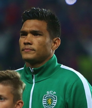 Teófilo Gutiérrez